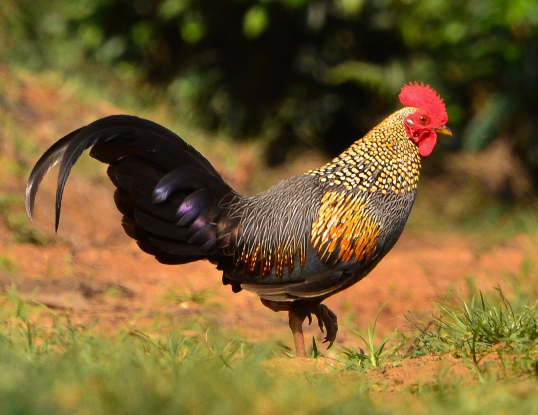 Grey jungle fowl, Munnar